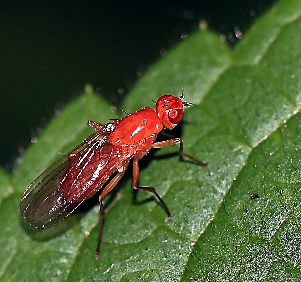 Unidentified insect, Sachsen, Laubwald = Psila fimetaria